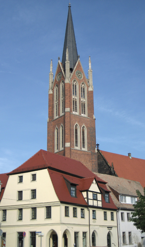 church tower of Kemberg, Germany